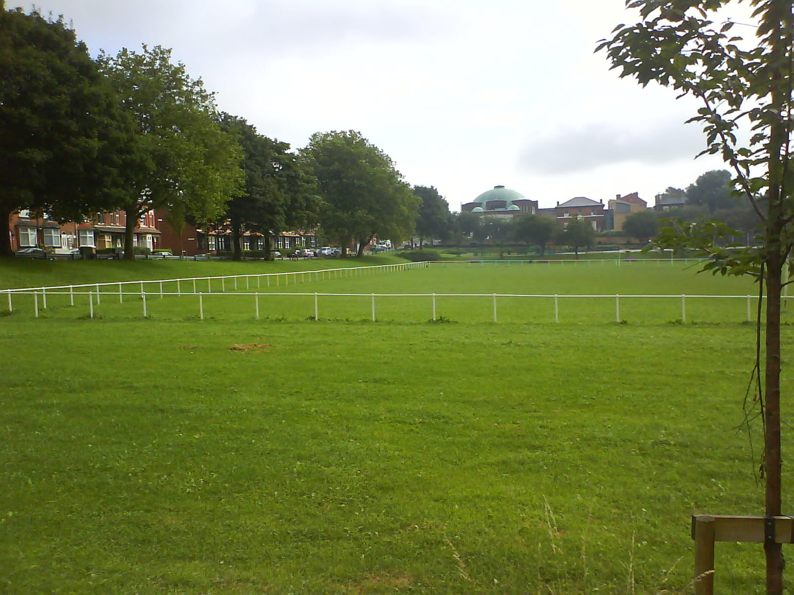 This image is in the public domain. Please ignore flickr's cc-BY license for this photo, I require no attribution for any use of this image.